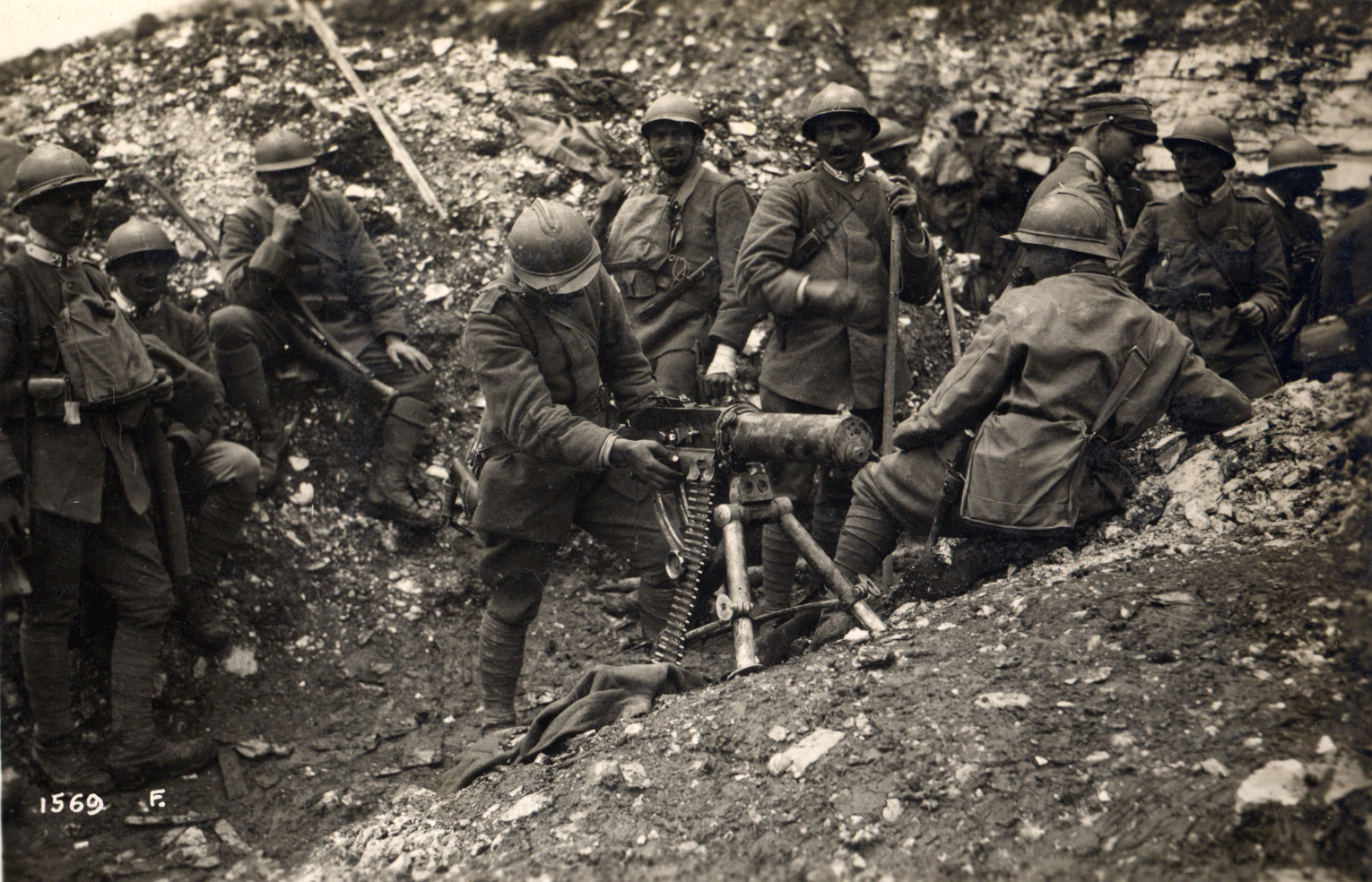 World War 1 - Italian Army: Seventh Battle of the Isonzo - Italian troops with a captured Austrian machine gun